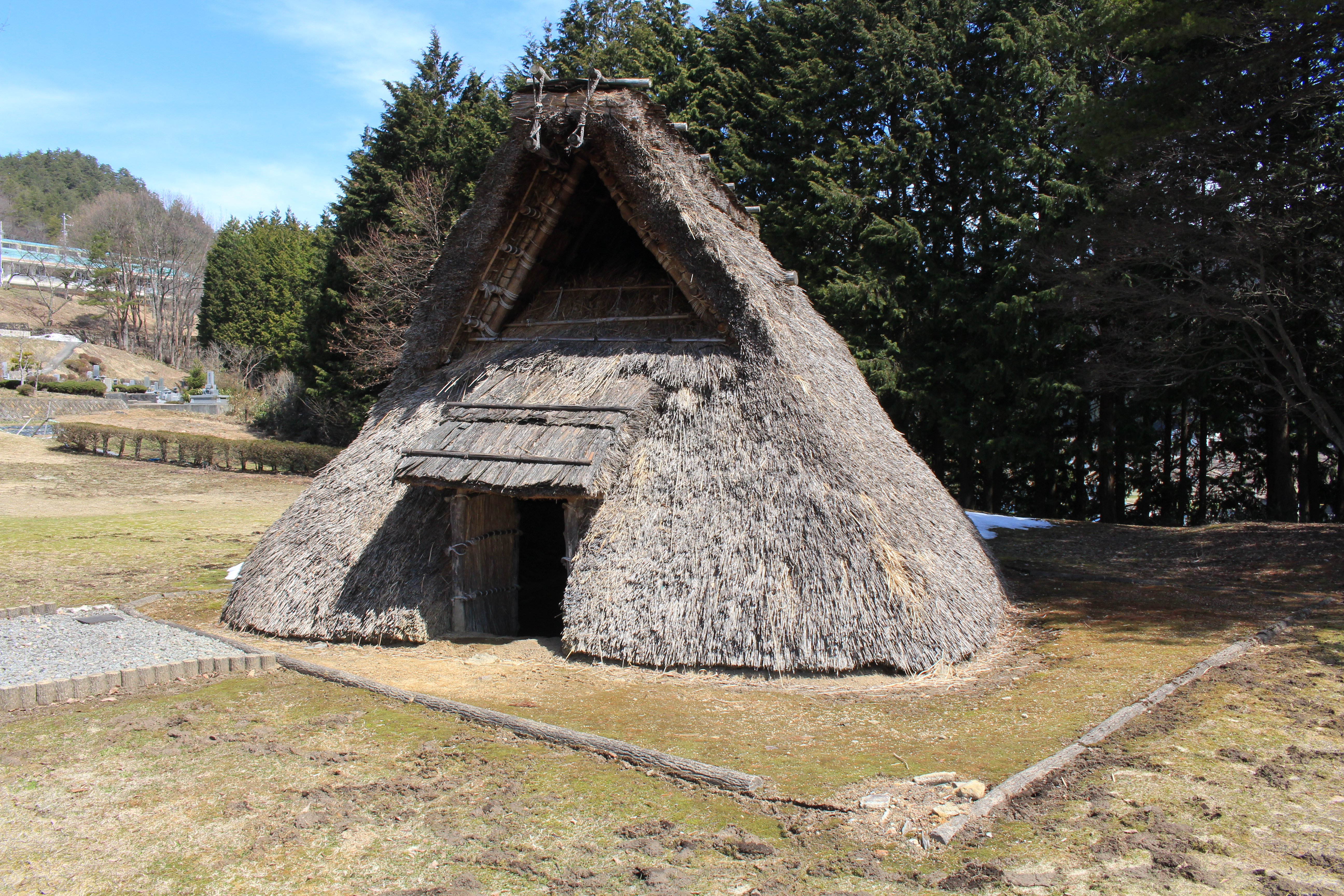 Pit-house of Dōnosora site in Dōnosora site, Kuguno, Takayama, Gifu prefecture, Japan.